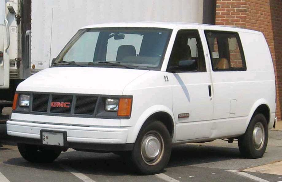 1985-1989 GMC Safari photographed in College Park, Maryland, USA.